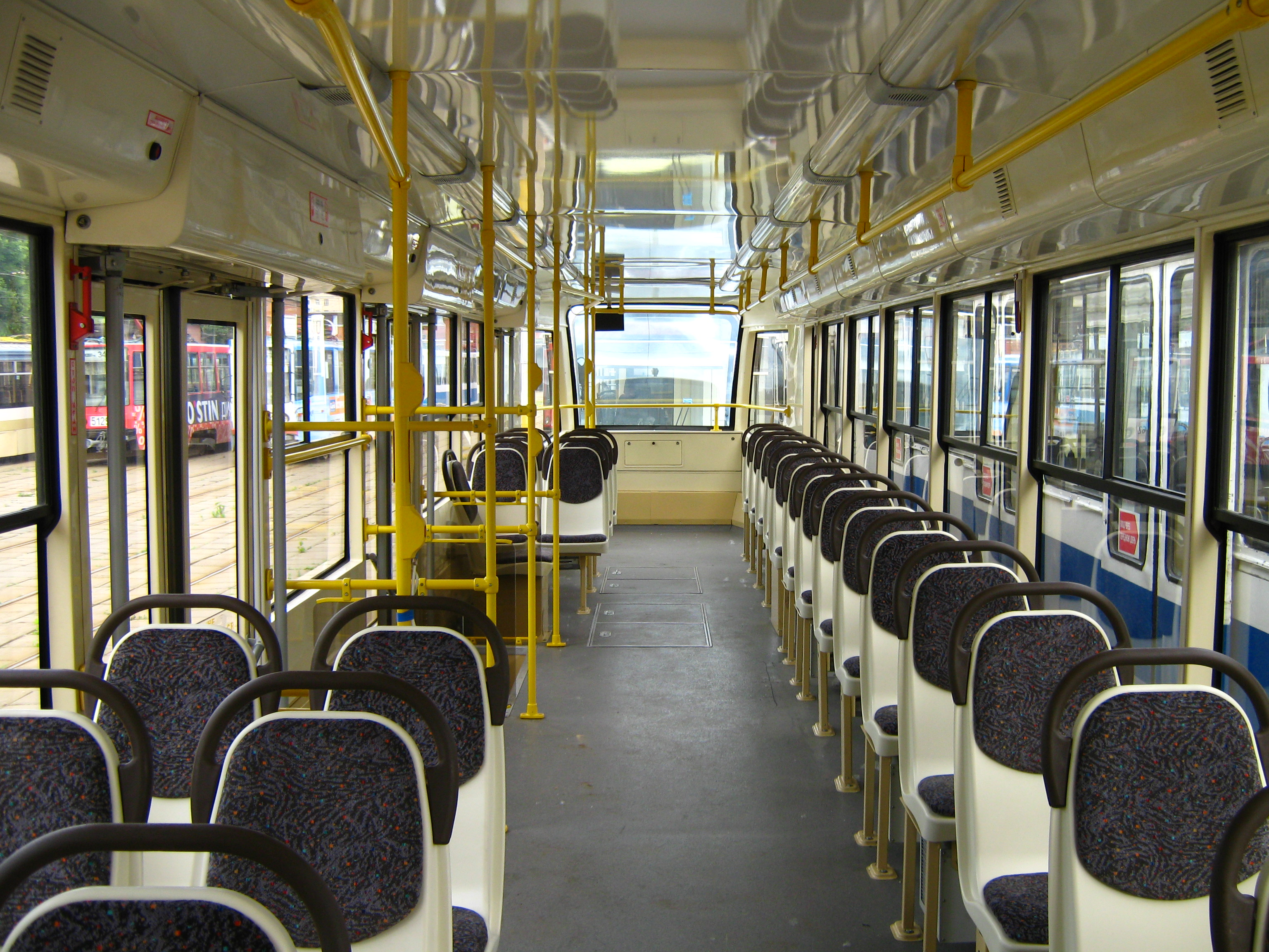 Tram 71-619A-01, #00182.